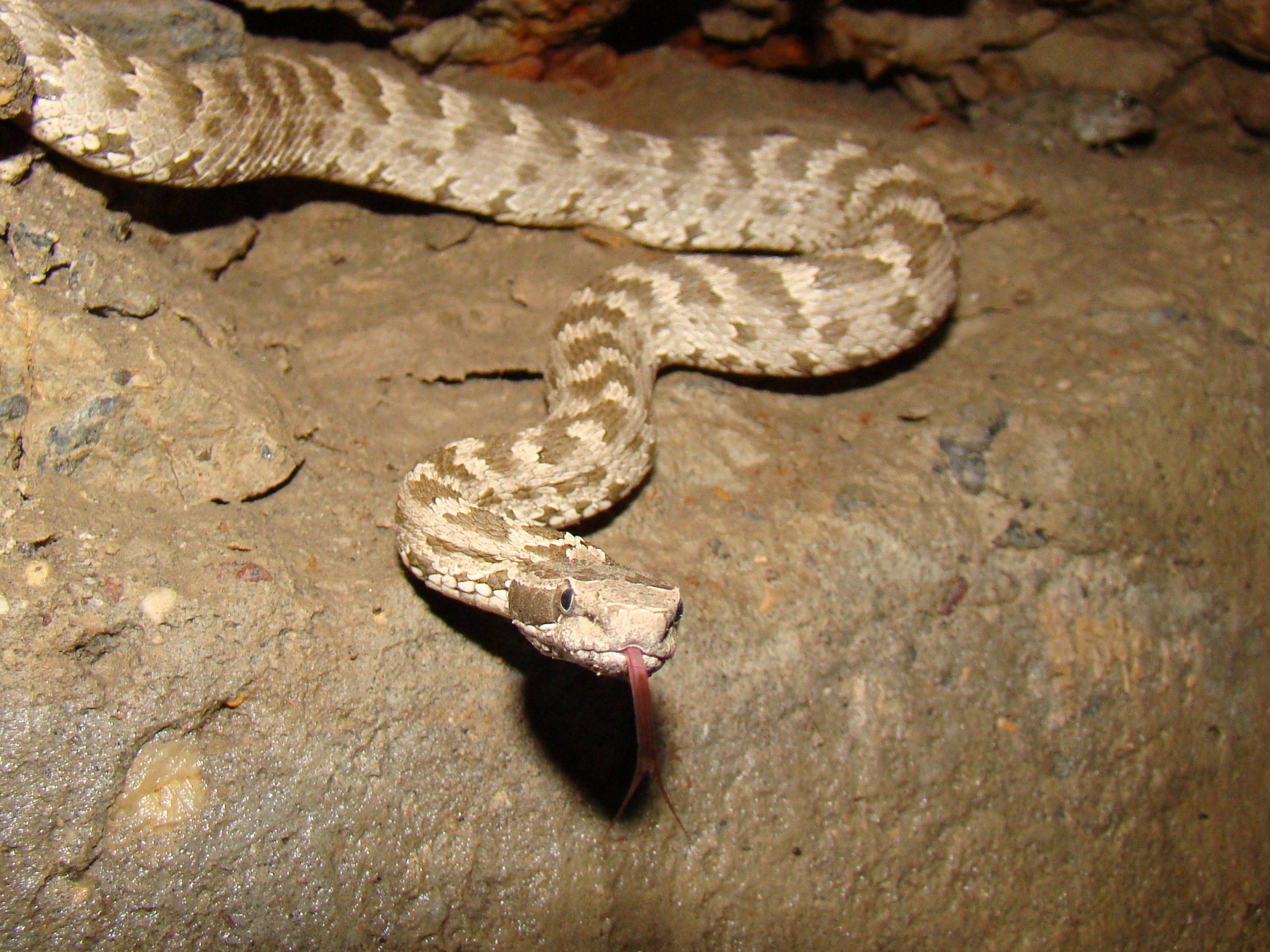 Gloydius halys with his victim young European Green Toad (Bufo viridis). Cellar of a country house near river Syr-Darya, a vicinity of the city of Baikonur, Kazakhstan.